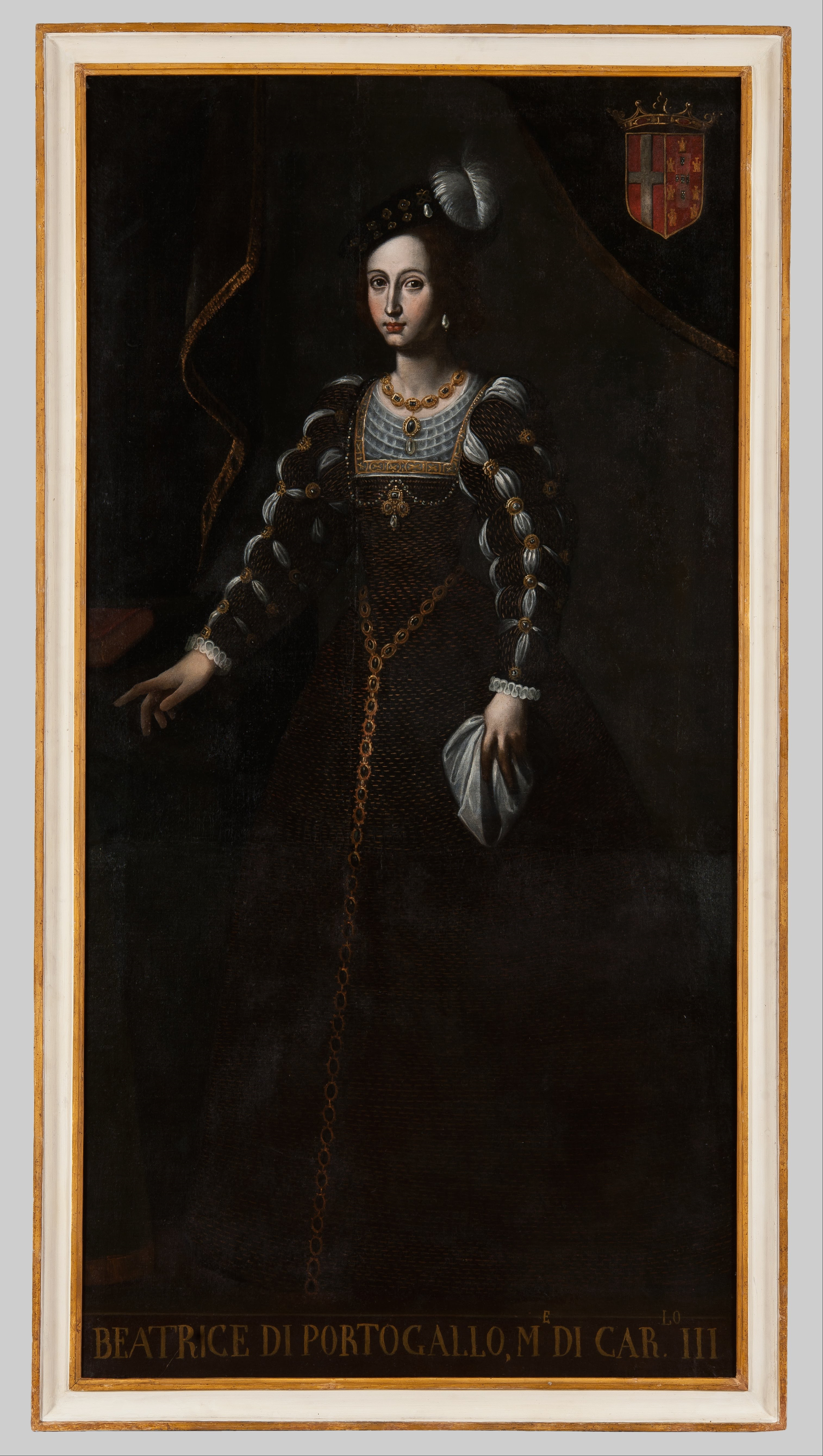 portait of Beatrice of Braganza